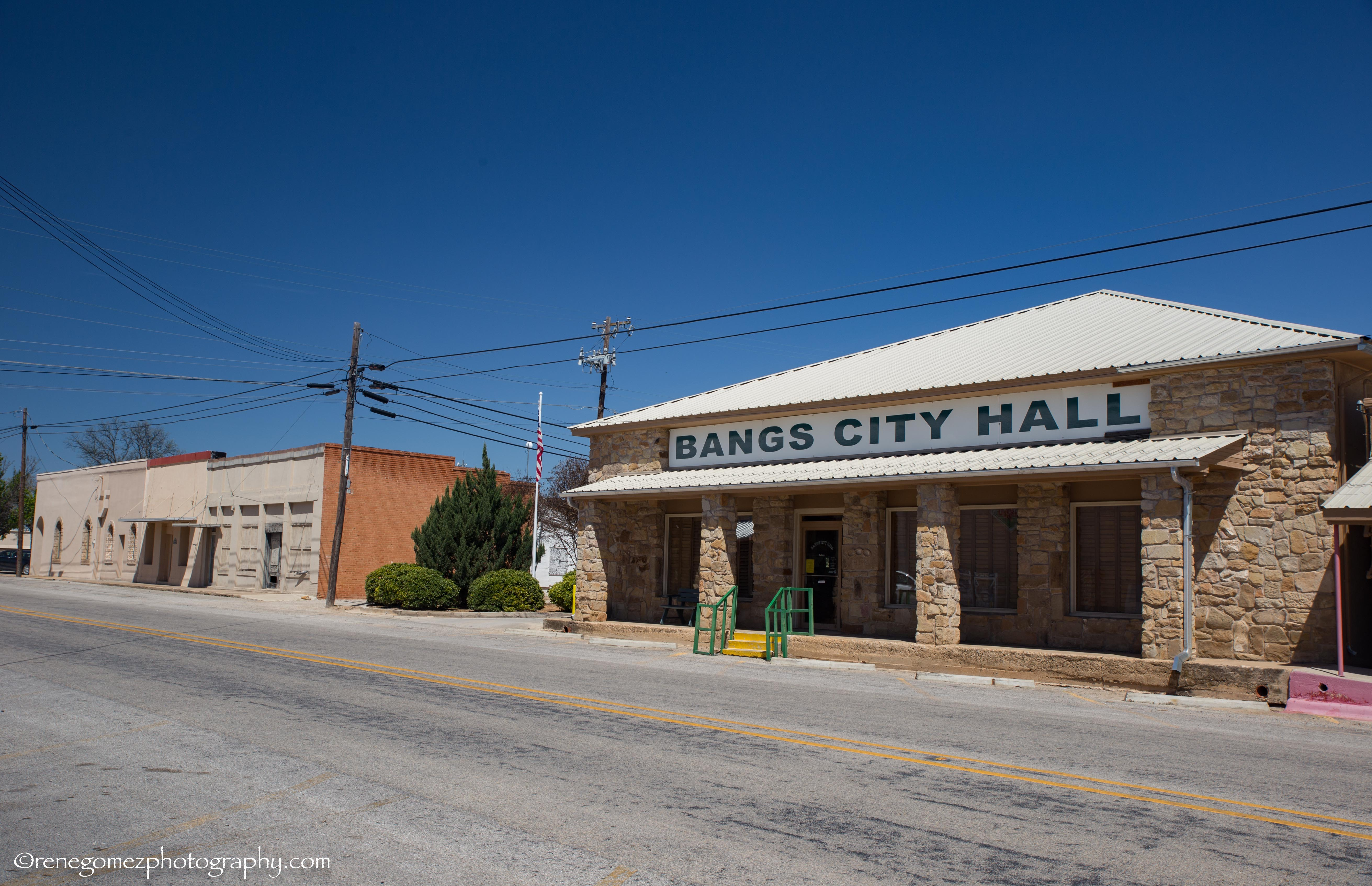 City Hall in Bangs, Texas